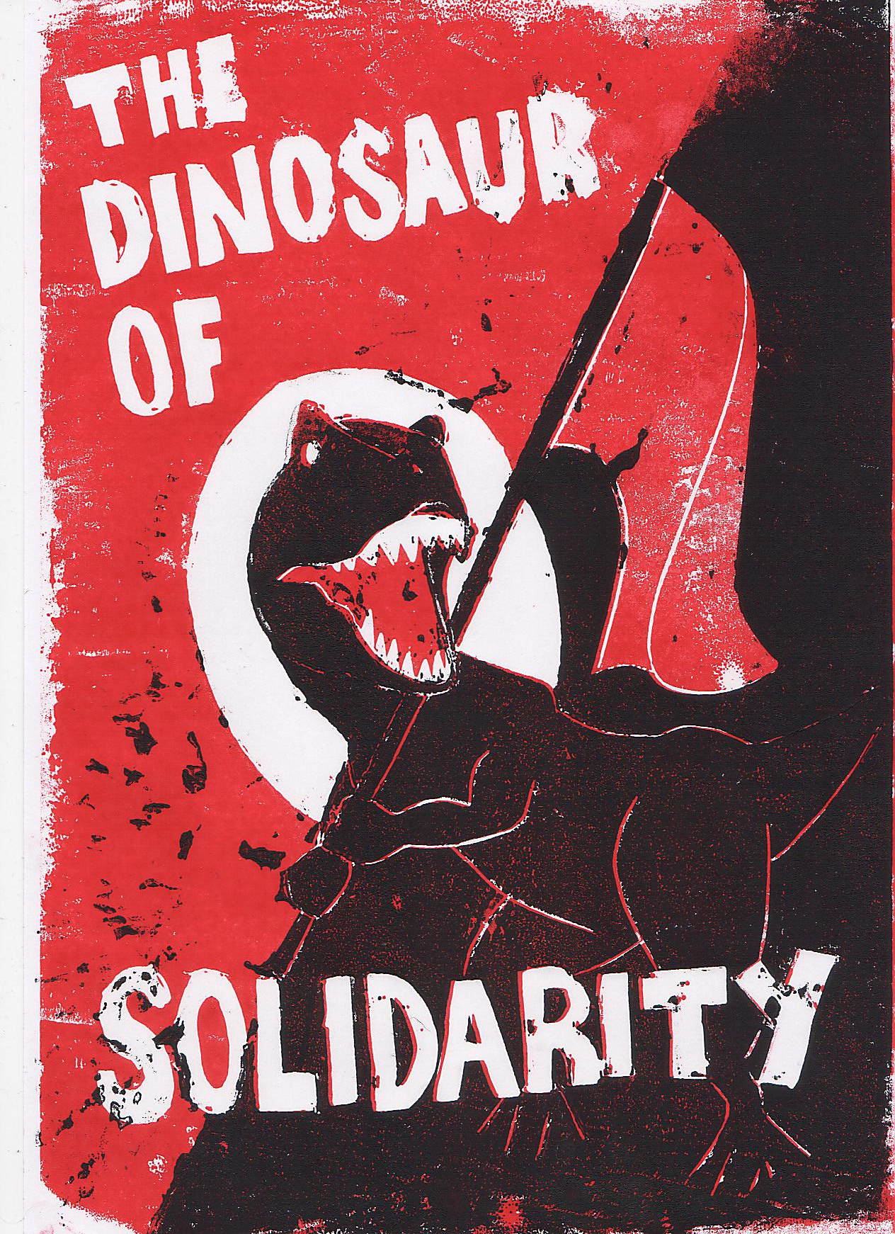 A lino print in red and black ink of the "Dinosaur of Solidarity" produced in support of the University and College Union's industrial dispute to secure the University Superannuation Scheme (USS) in 2018.